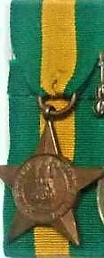 Poorvi star mounted